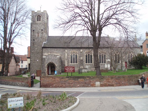 All Saints' Church The Church of All Saints, All Saints Green, Norwich.